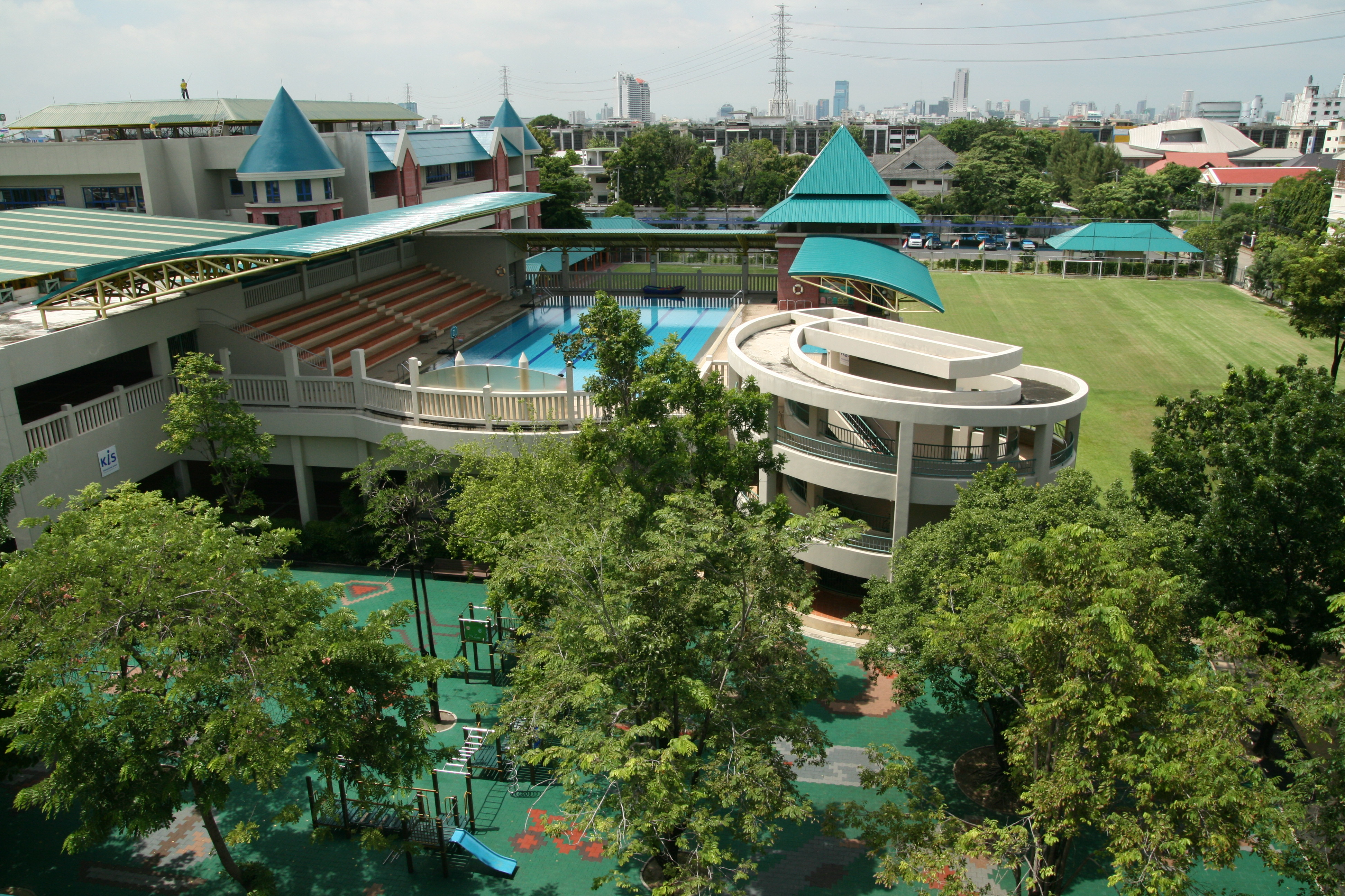 Aerial view of KIS International School, Bangkok